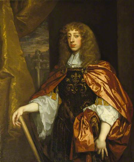 Josceline Percy, 11th Earl of Northumberland (1644-1670). Provenance: accepted by HM Treasury, 1956, in lieu of death duties on the estate of Charles Henry Wyndham, 3rd Baron Leconfield, of Petworth House; transferred to the National Trust